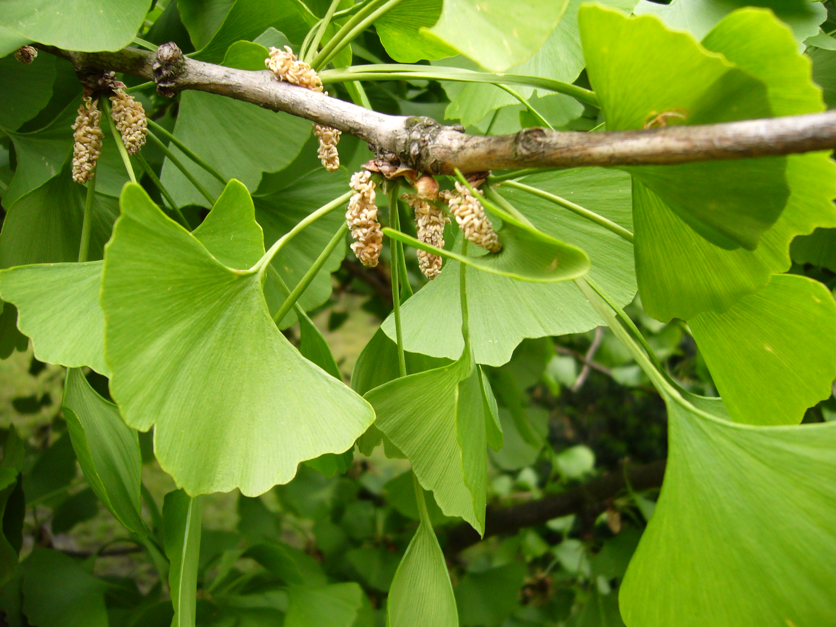 Ginkgo biloba - leaves and male flowers